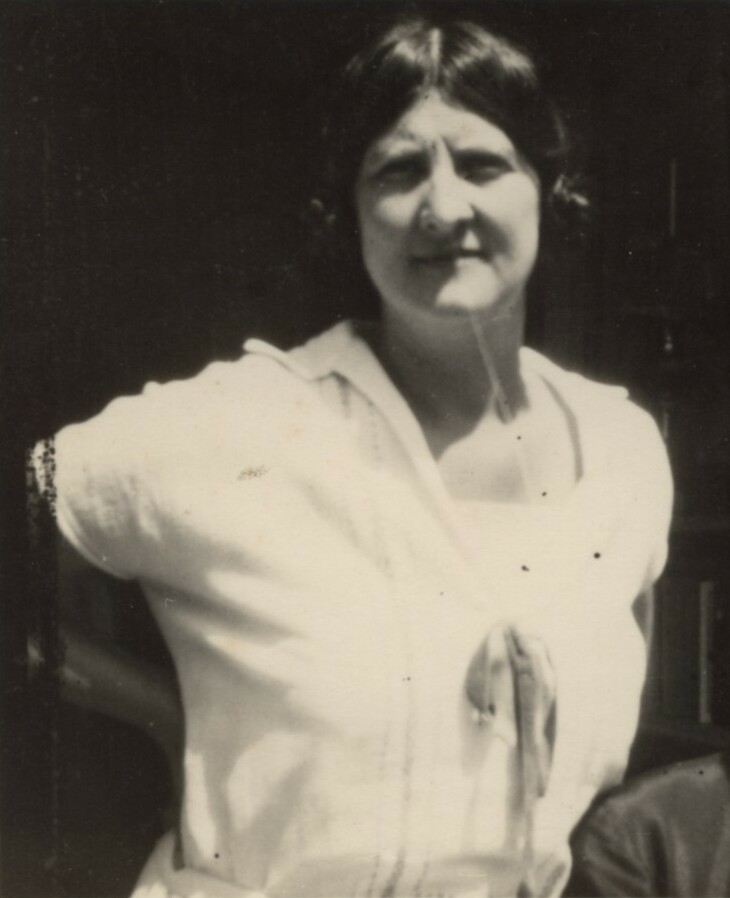 Photograph of artist Mildred Bendall